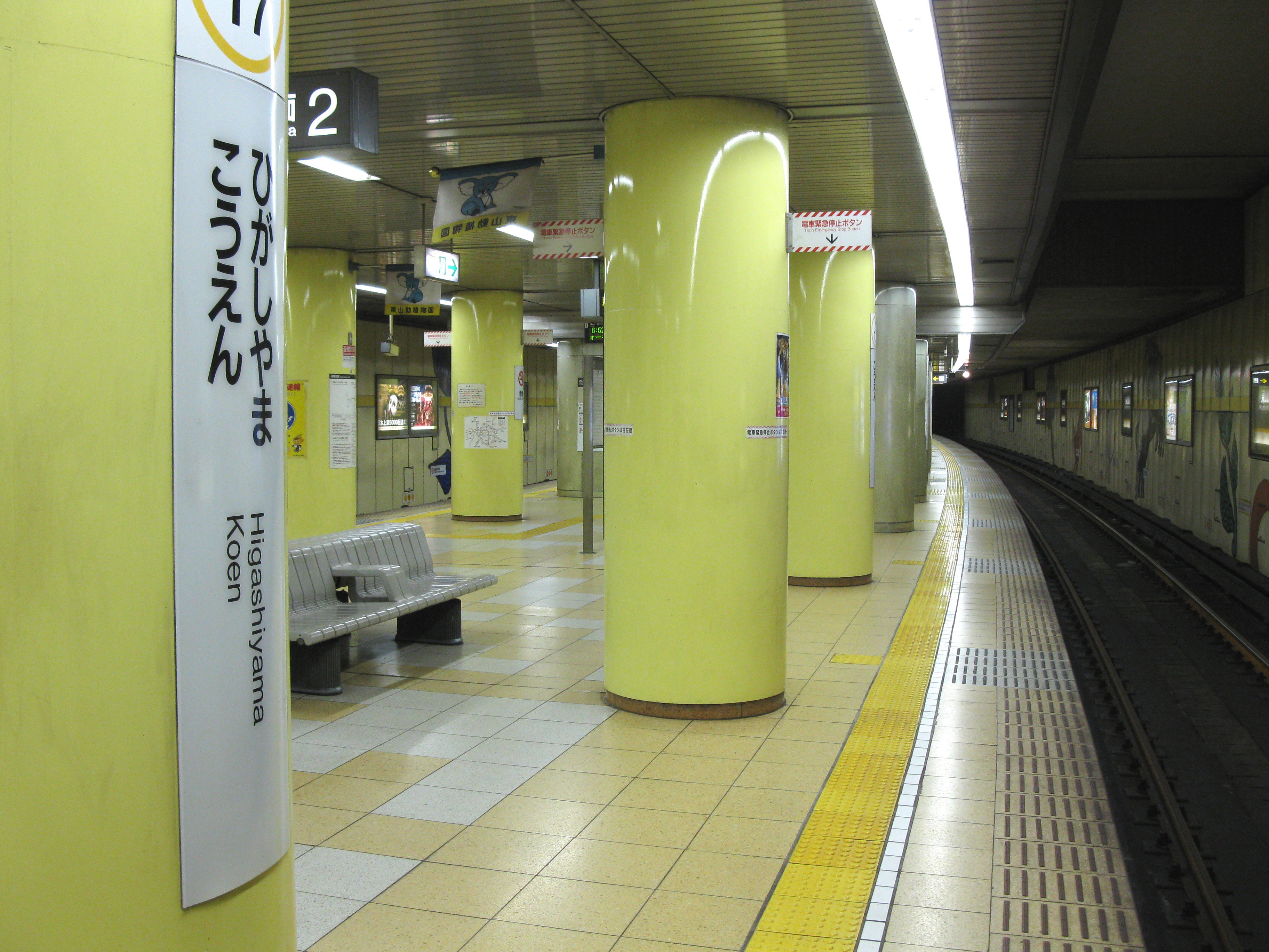 Higashiyama Kōen Station platform (Nagoya Municipal Subway Higashiyama Line)